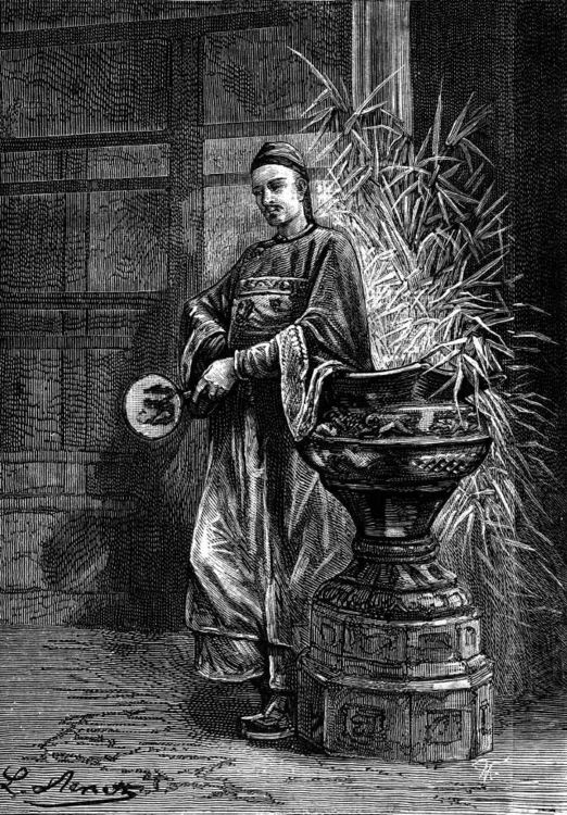 An illustration from Jules Verne's novel "Tribulations of a Chinaman in China" (1878) drawn by Léon Benett.